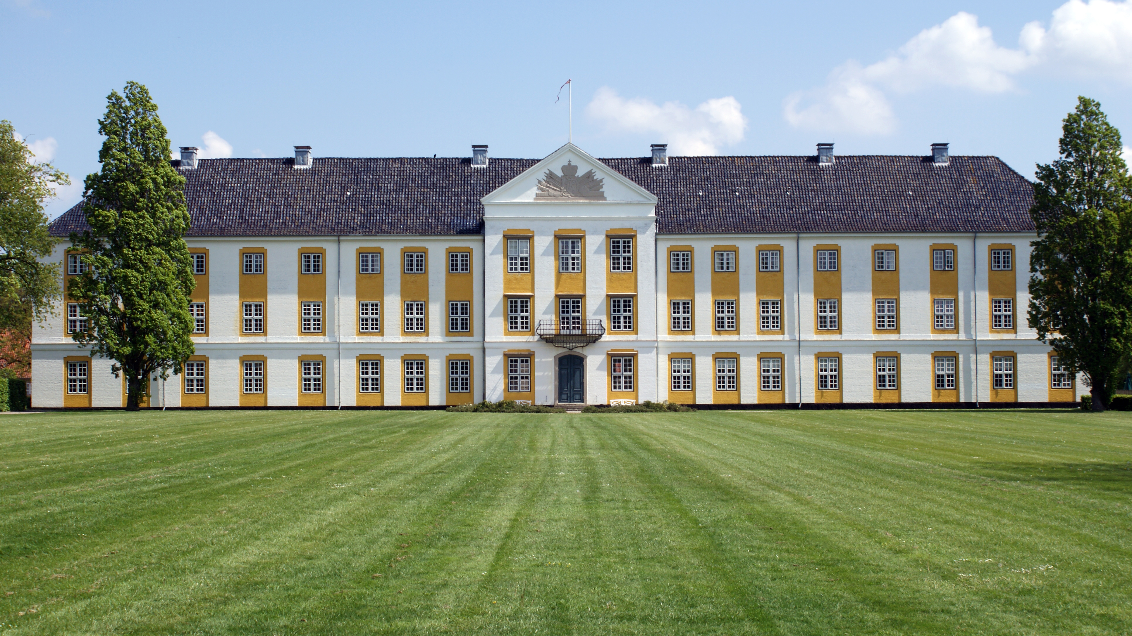 Description=Augustenborg Gartenfassade Source=myself Date=02.2007 Author=PodracerHH 17:20, 30 August 2007 (UTC)